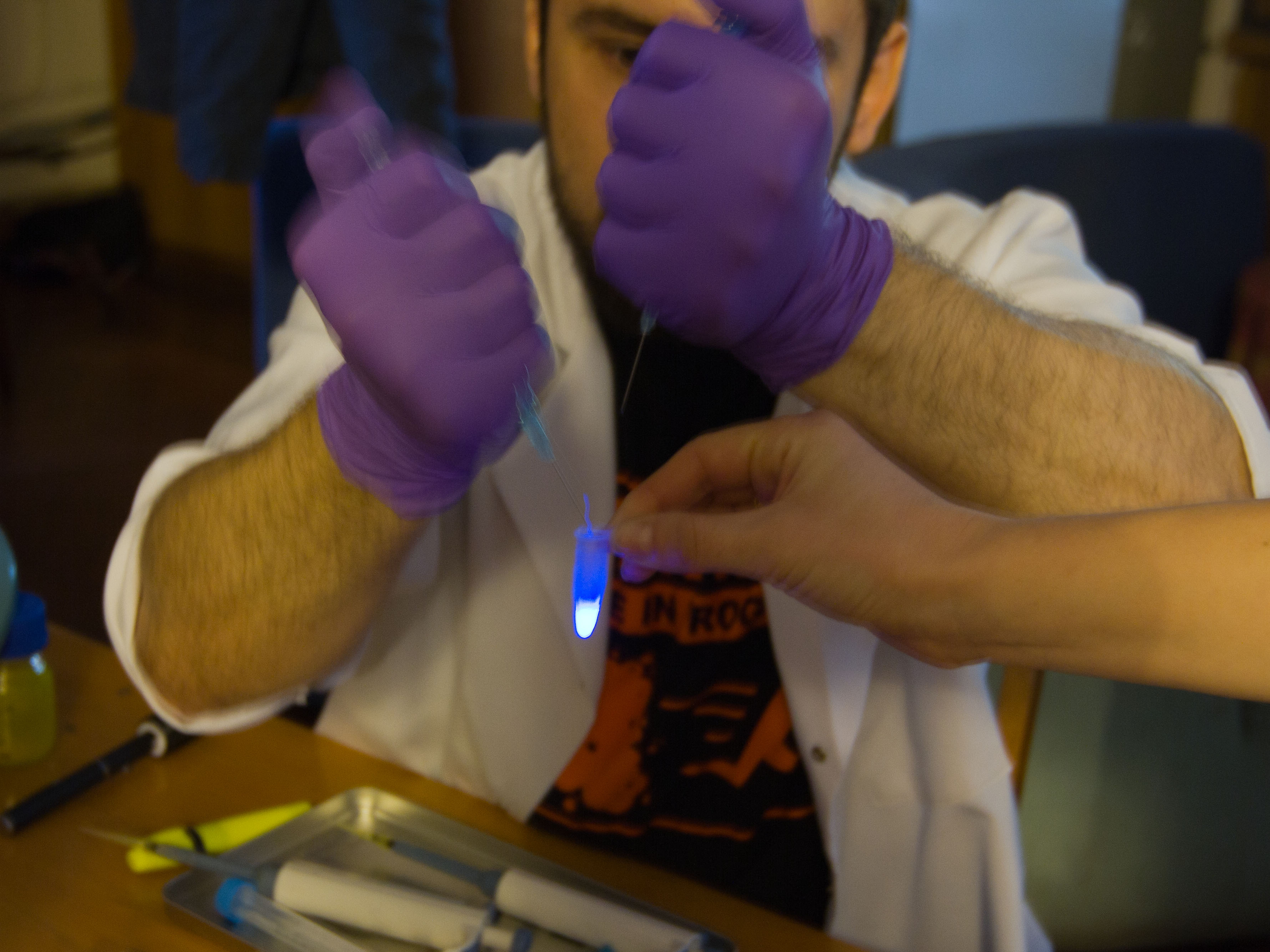 The reaction of Luminol